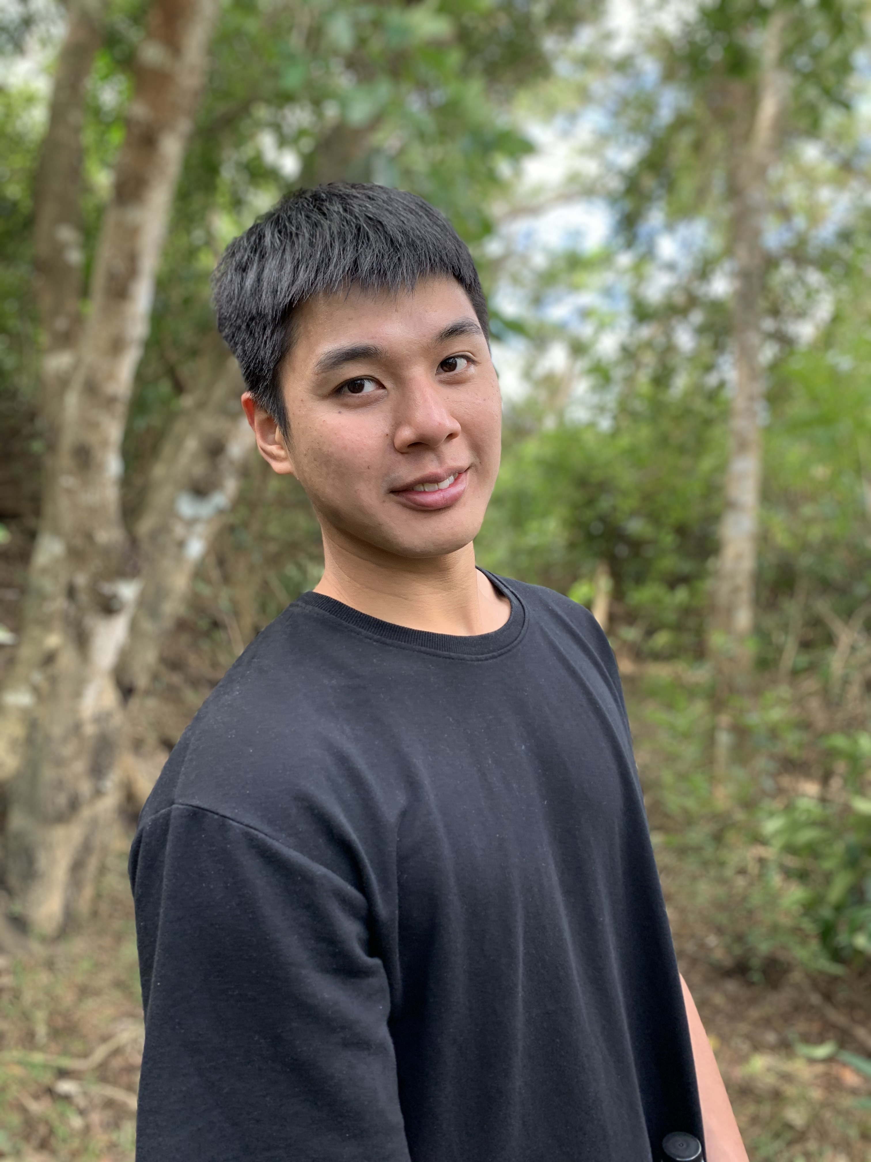 Lu Ching Yao hiking with family